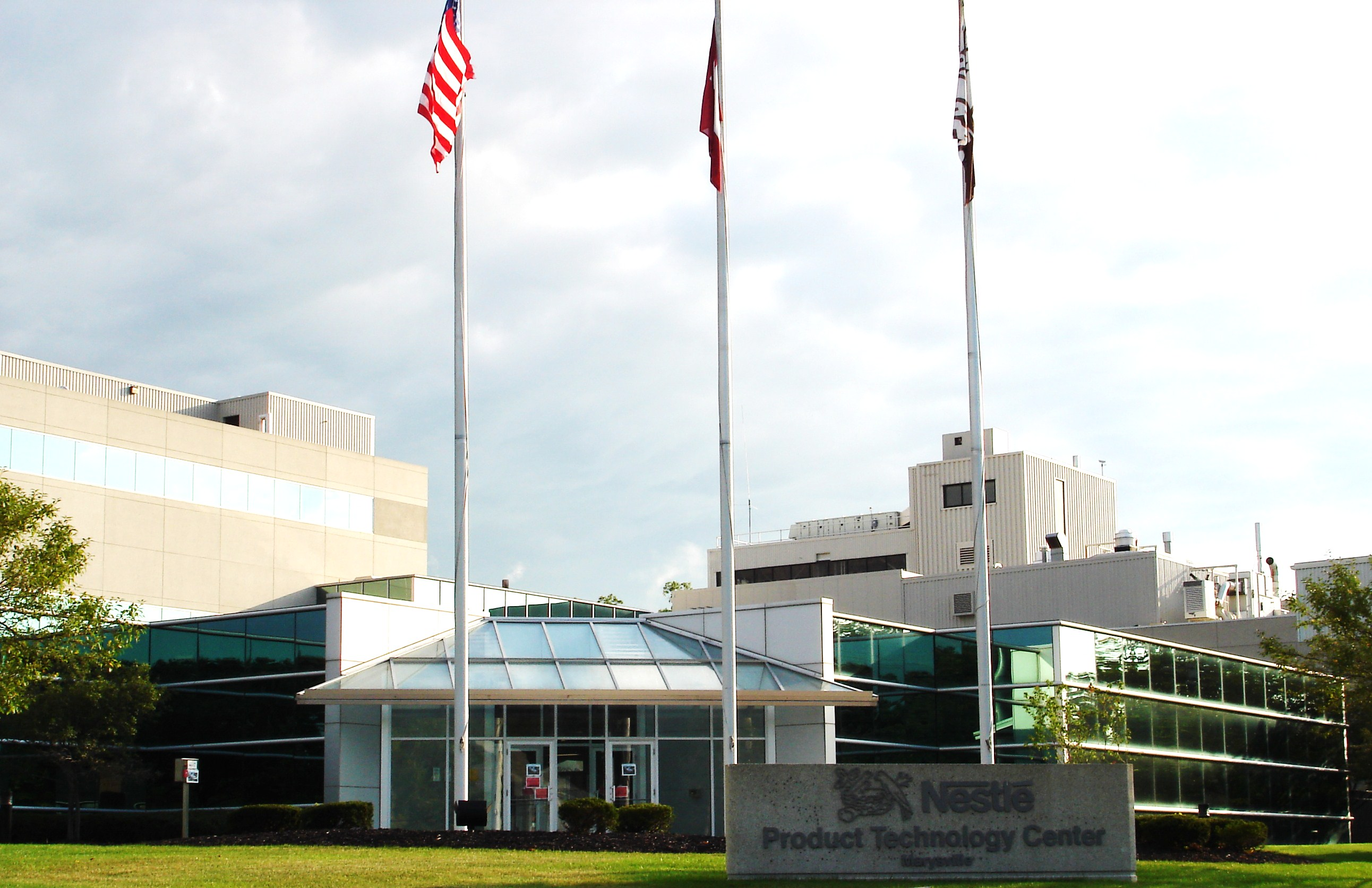 Nestle R&D, Marysville, Ohio, United States